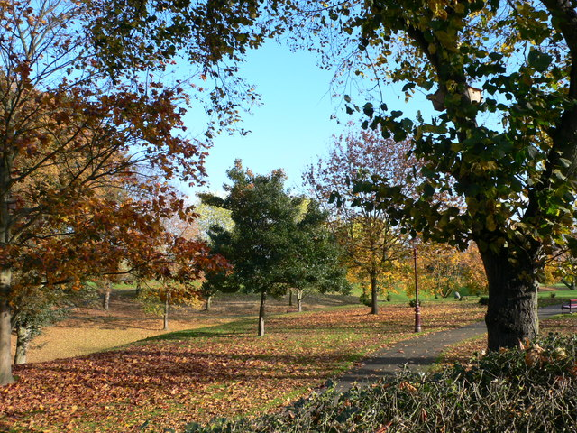 Bellvue Park, Wrexham An Edwardian park in the centre of Wrexham, which has been refurbished.